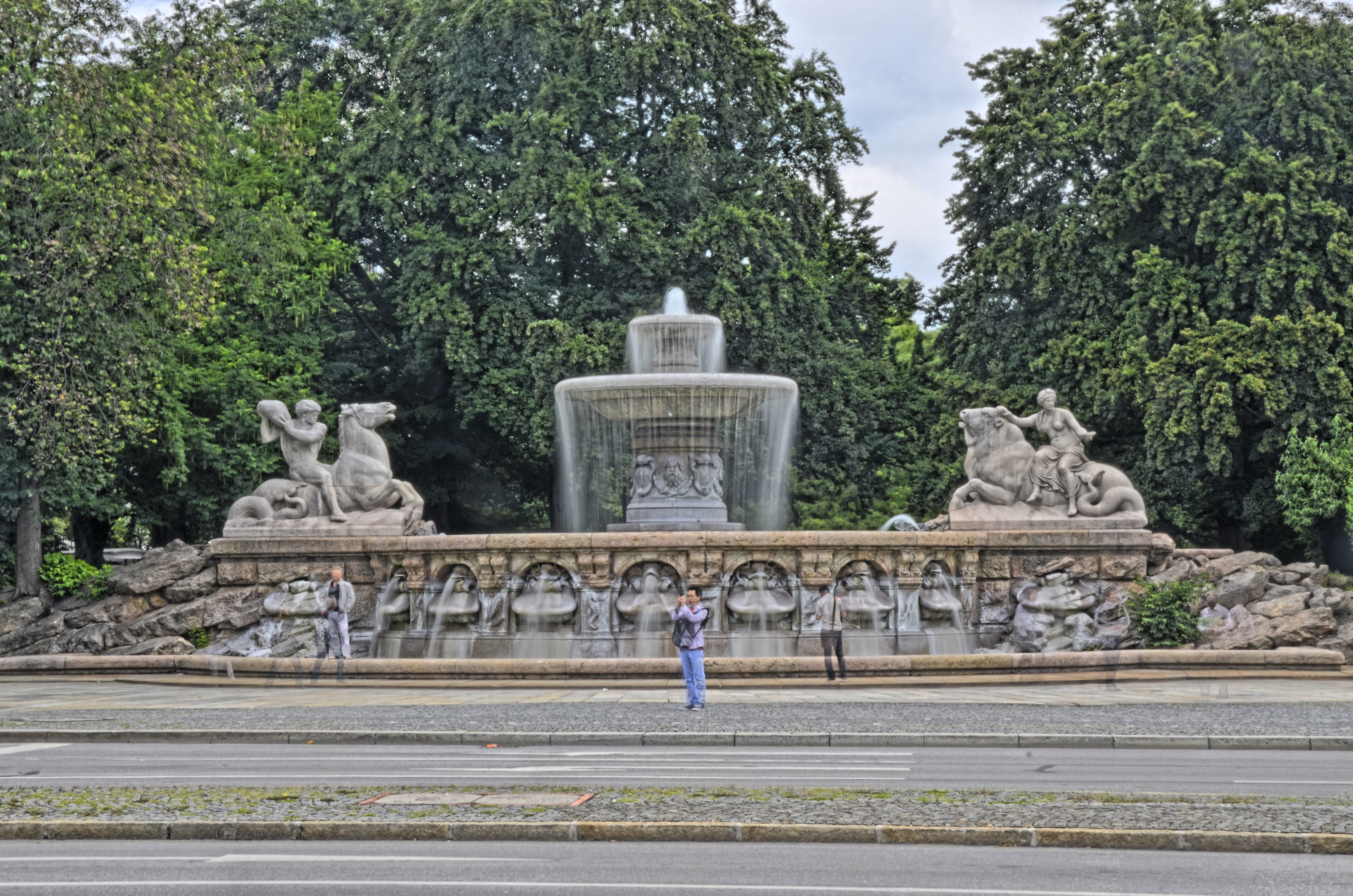 Wittelsbacher fountain in Munich, HDR image